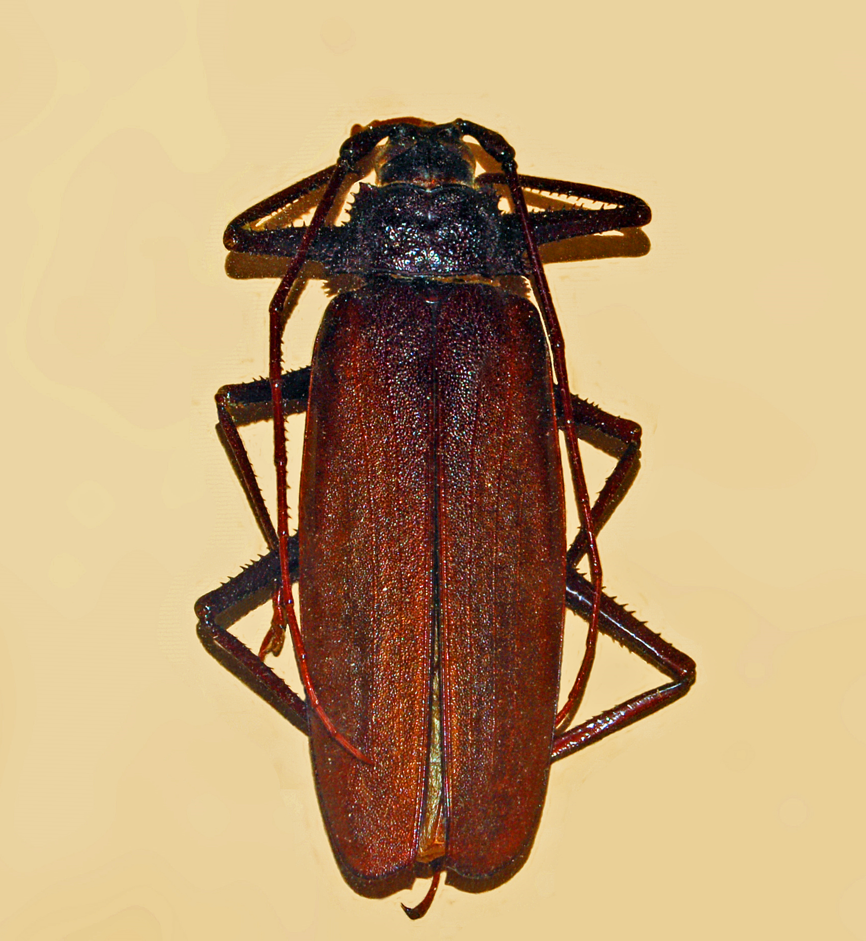 Macrotoma serripes from Prince Island